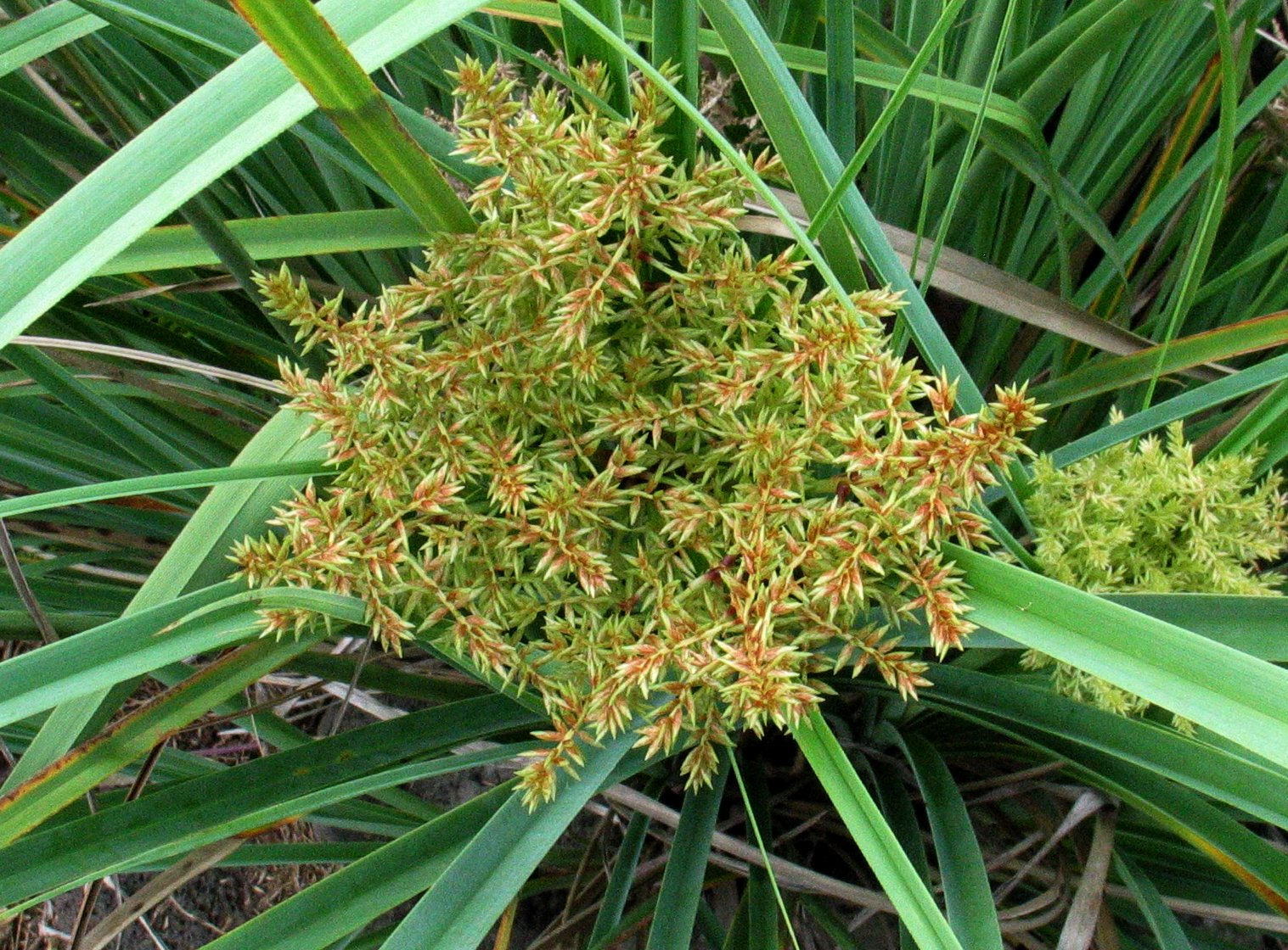 ʻAhuʻawa, or ʻehuʻawa [syn. Mariscus javanicus] Indigenous Oʻahu (Cultivated)